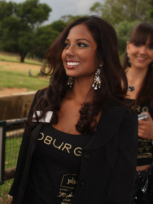 Miss Belize 2008 Charmaine Chinapen during Miss World 08